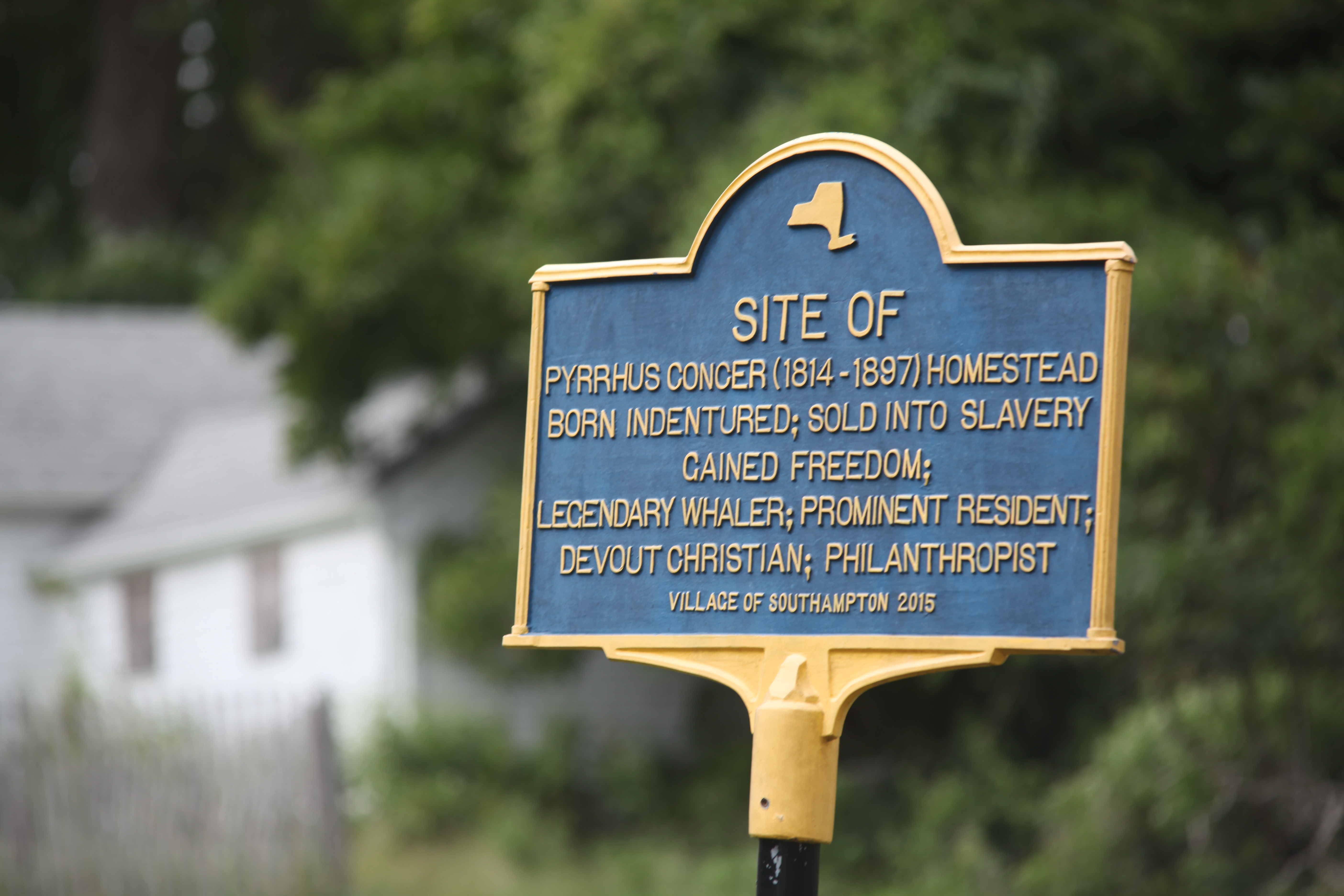 NYS Plaque - Pyrrhus Concer Homestead at Agwam Lake, southhampton, NY